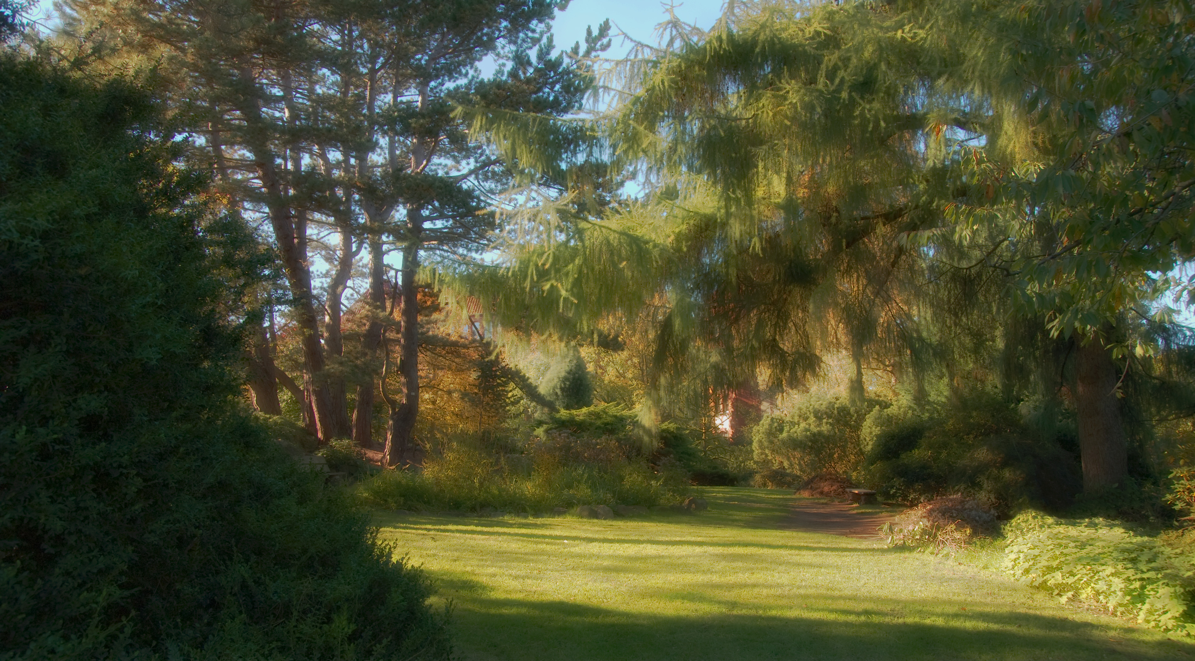 a small park (the old botanical garden) here in my home town, in a small hdr processed way :) hope you like it. oh, and of course some orton effect was added :)